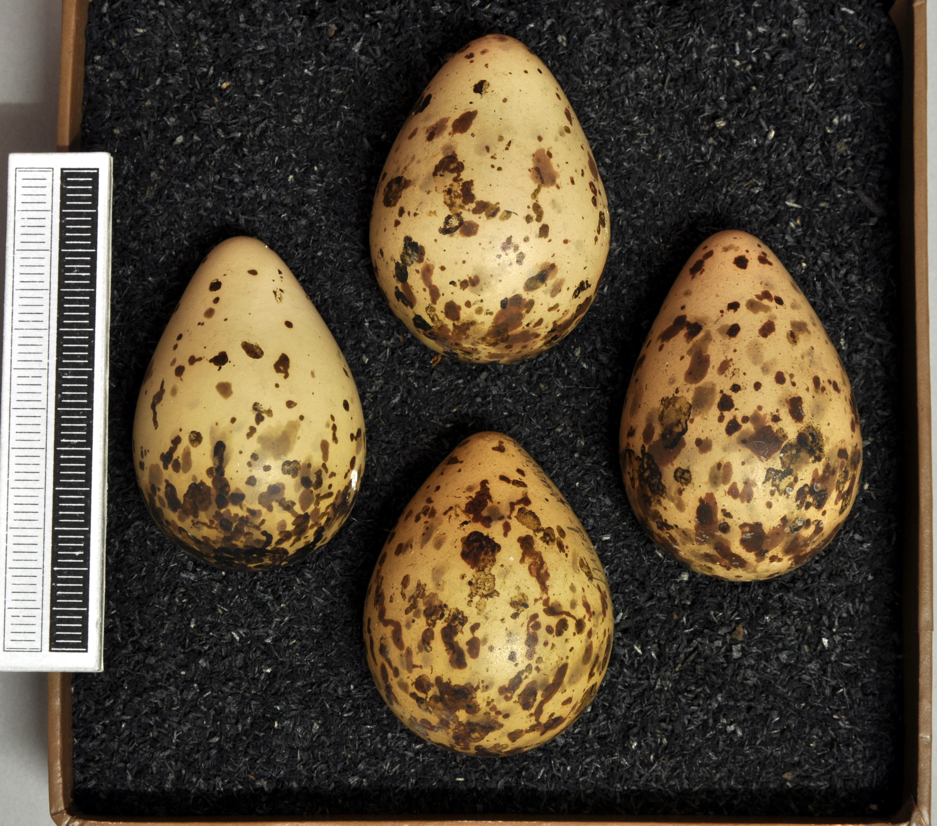 Ruff Philomachus pugnax , egg, Coll. Museum Wiesbaden